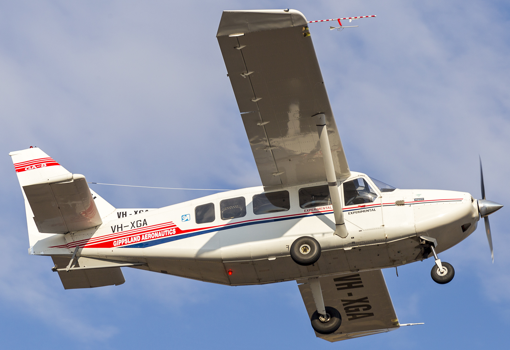 GippsAero (VH-XGA) Gippsland Aeronautics GA-8 Airvan departing Avalon Airport